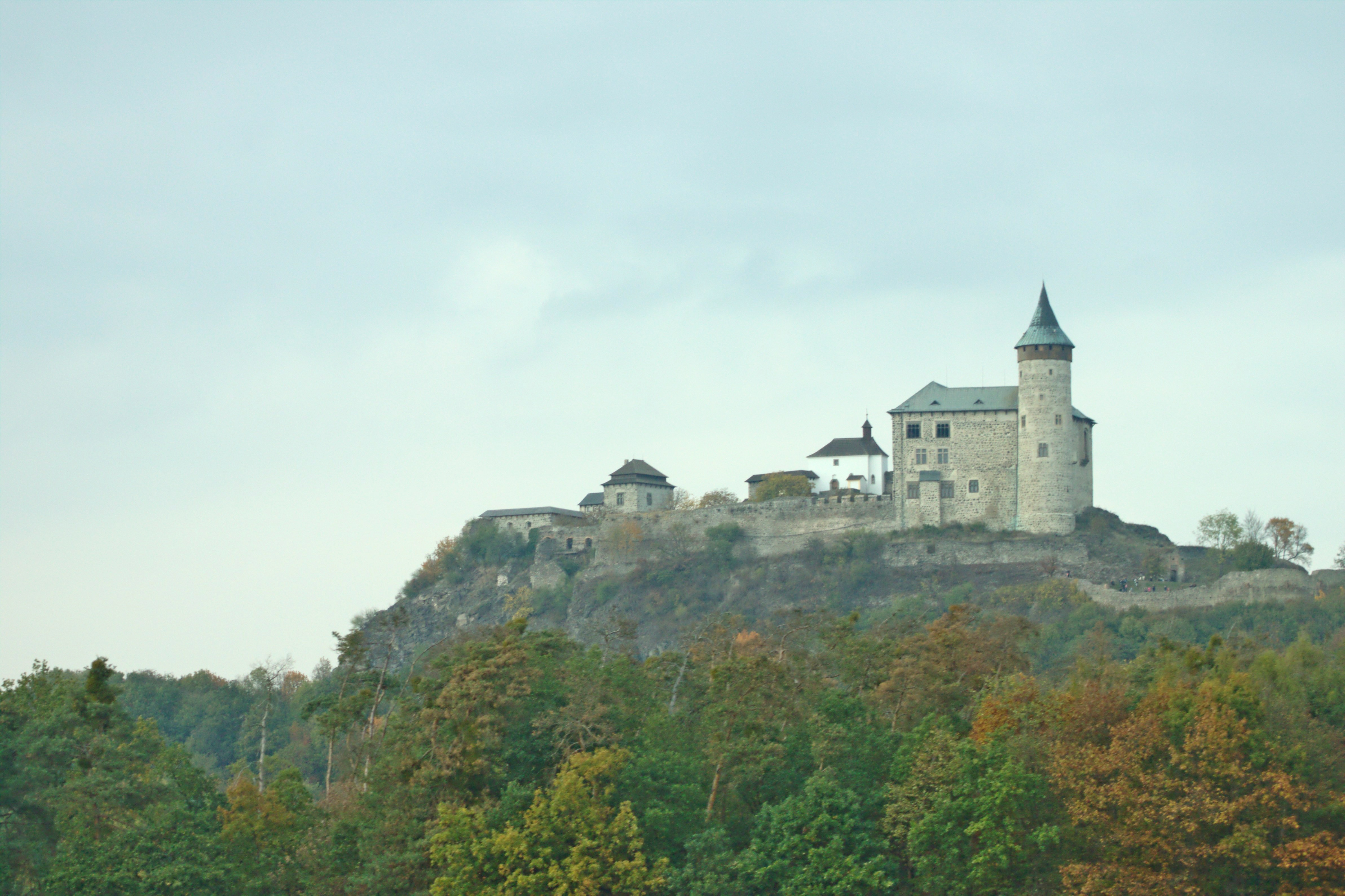 View of Kunětická hora hill from Ráby, Pardubice Region, CZ